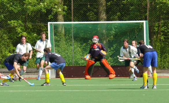 Penalty corner (hockey) in the Dutch Veterans League (Myra vs Voordaan).